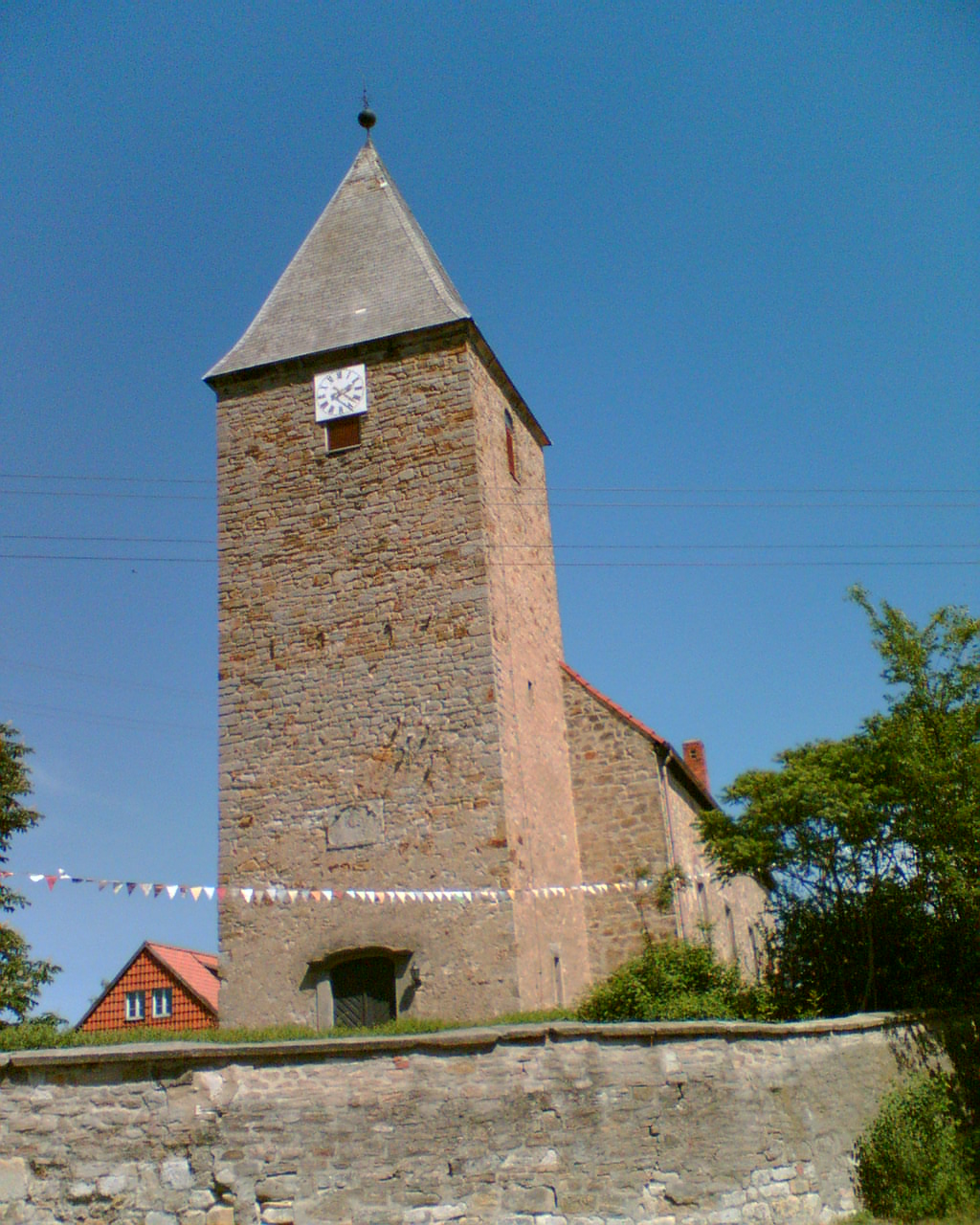 church in Gunsleben, Germany